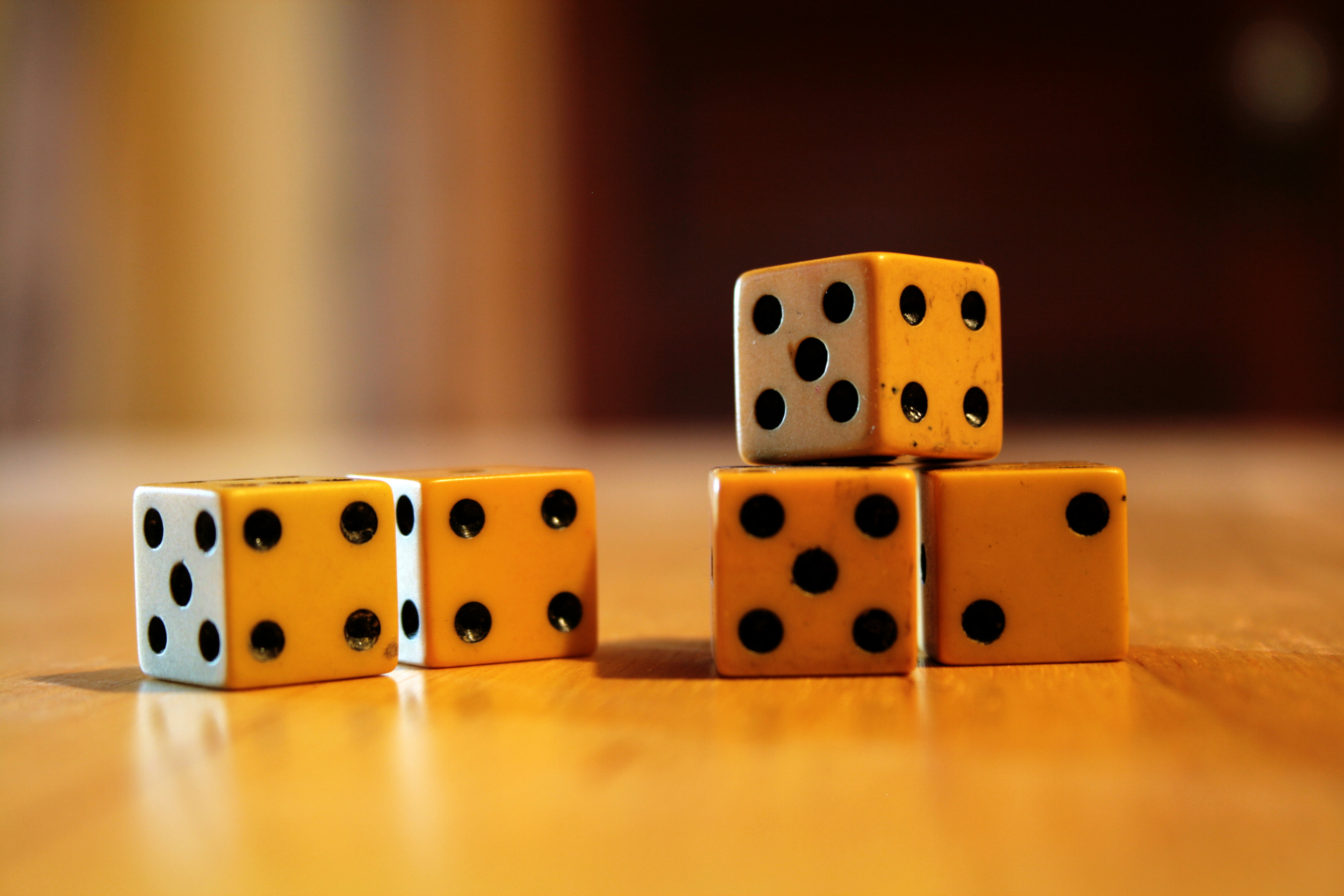 Five ivory dice.